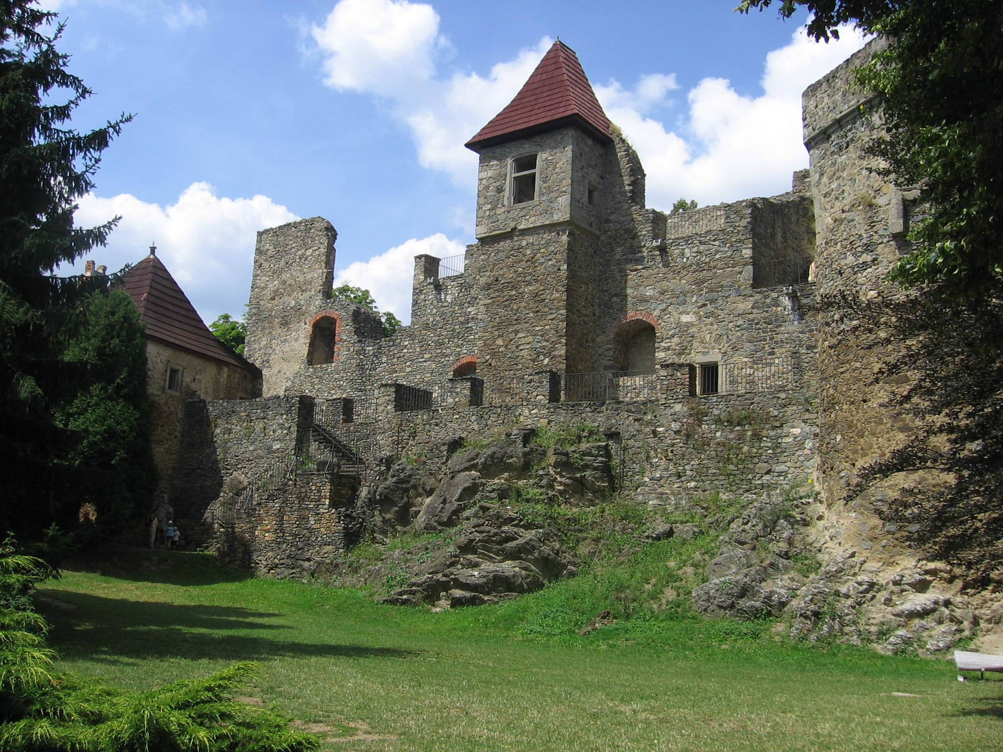 Castle Klenová, Plzeňský kraj, Czech Republic